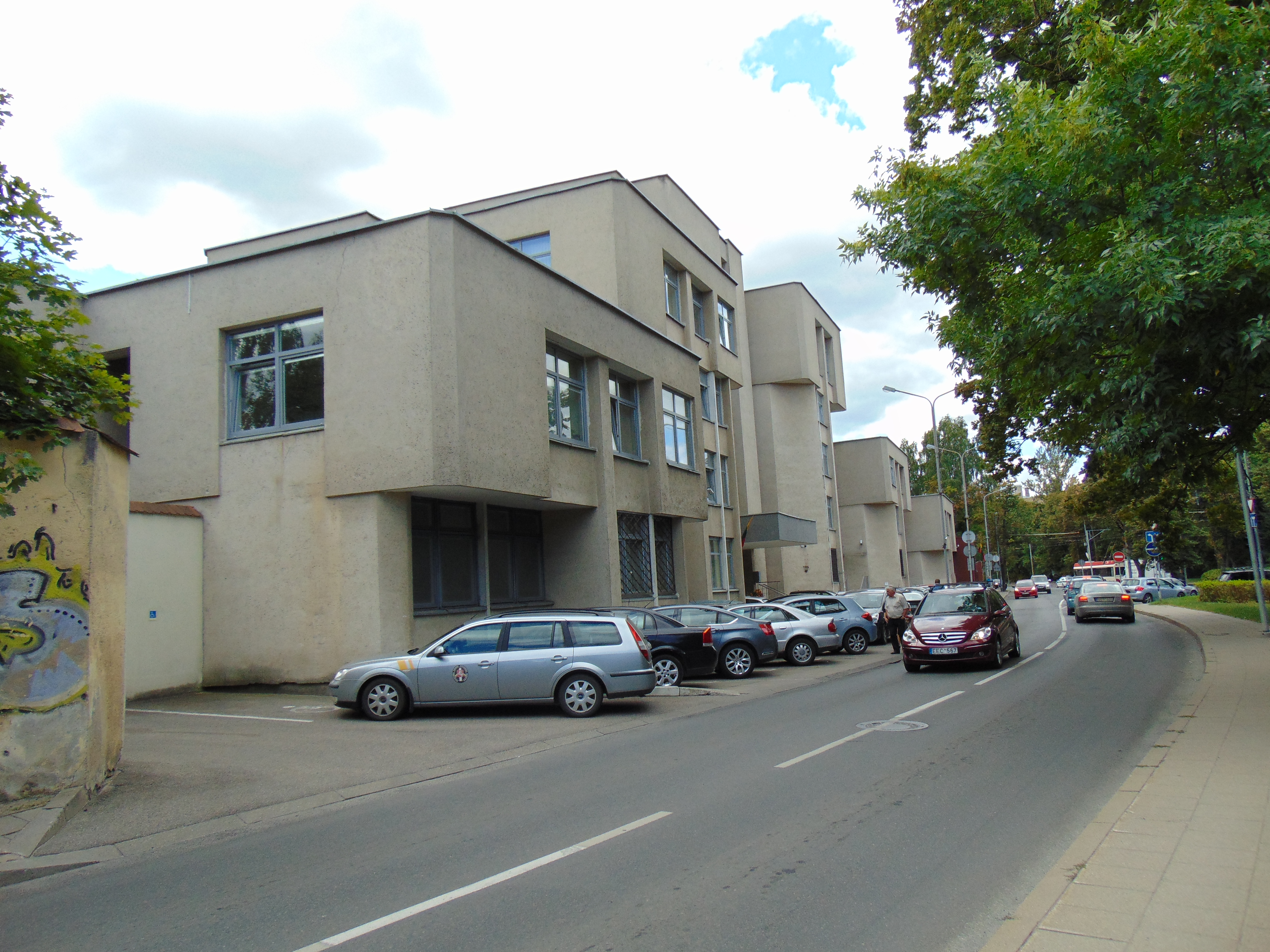 Department of Prisons